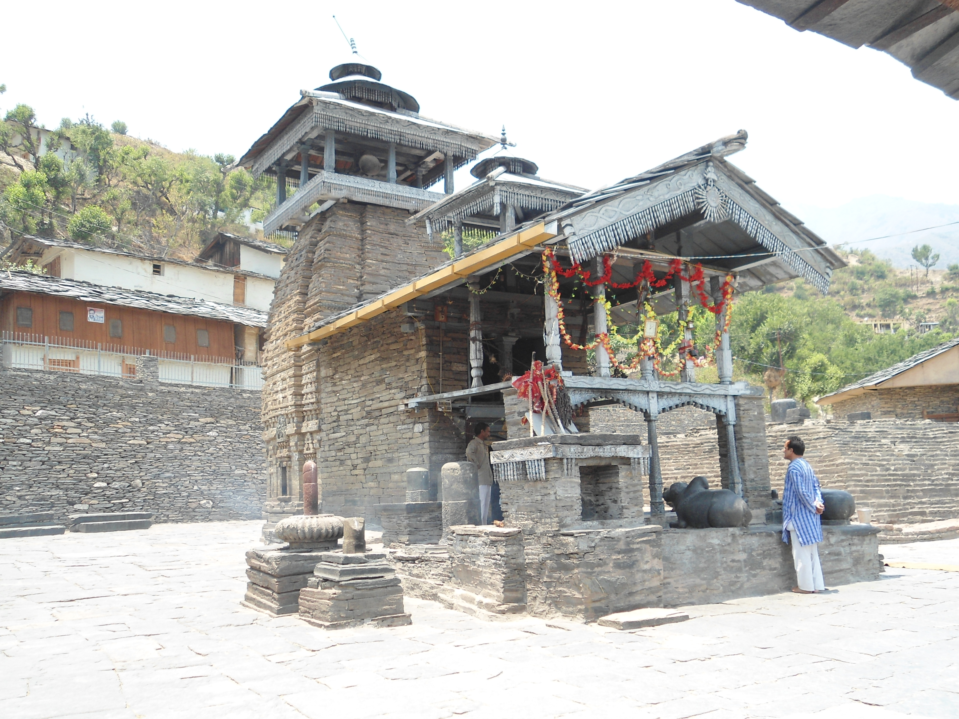 Main shrine of the Lakhamandal Temple.